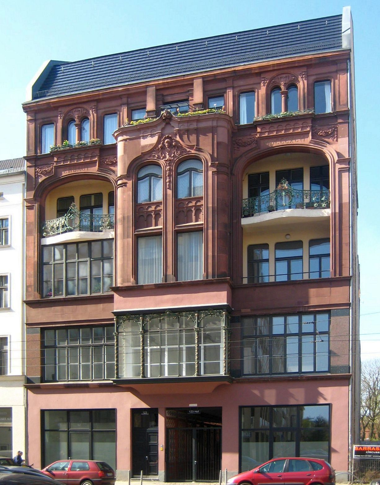 Residential and commercial building at Chausseestraße No. 123 in Berlin-Mitte. The house was built in 1896. It has been designated as a historic landmark.